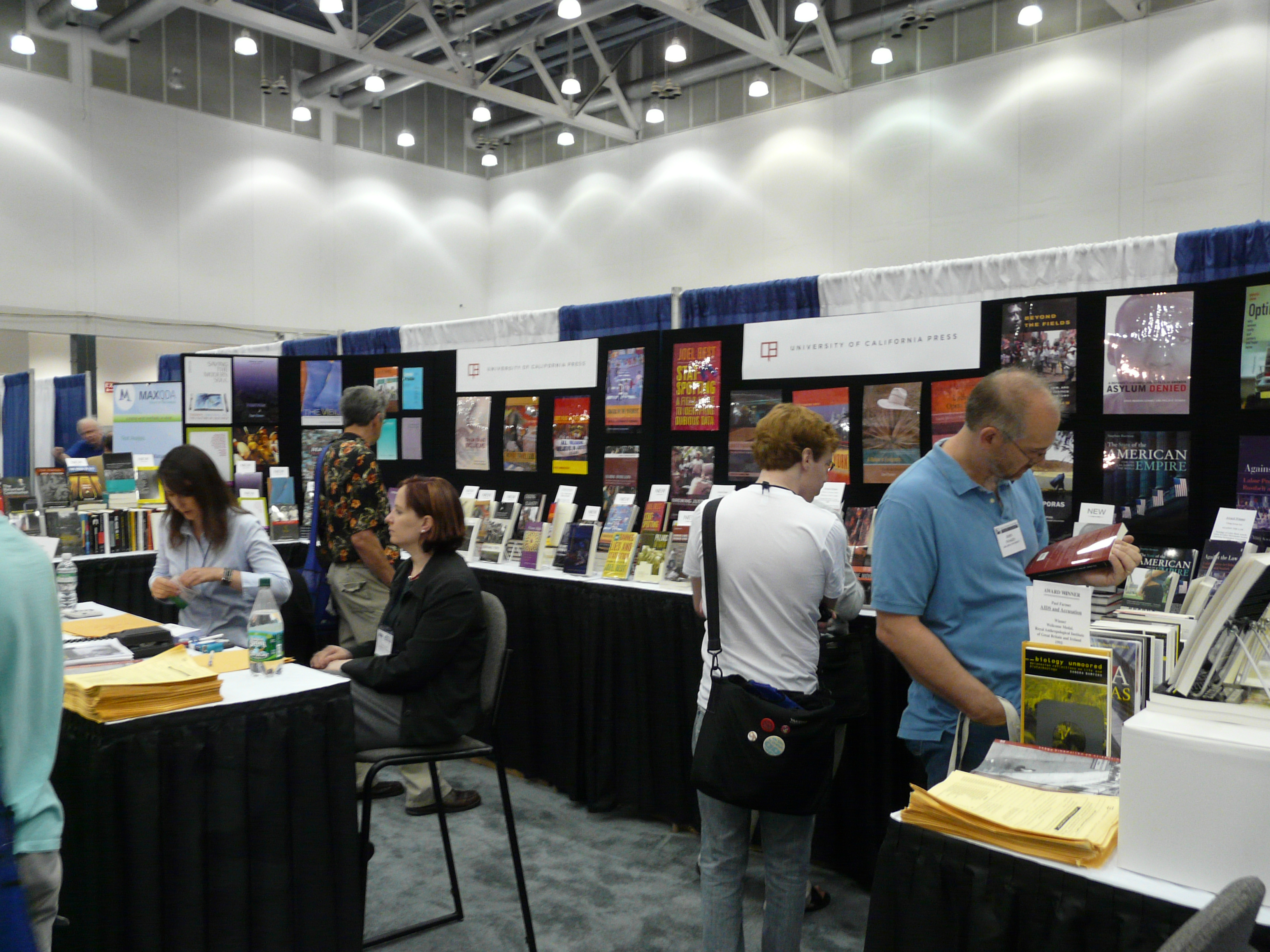 Boston. American Sociological Association conference.